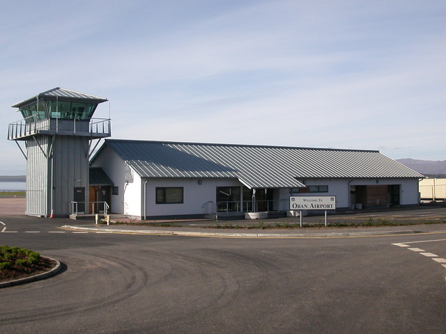 Oban Airport terminal building and control tower